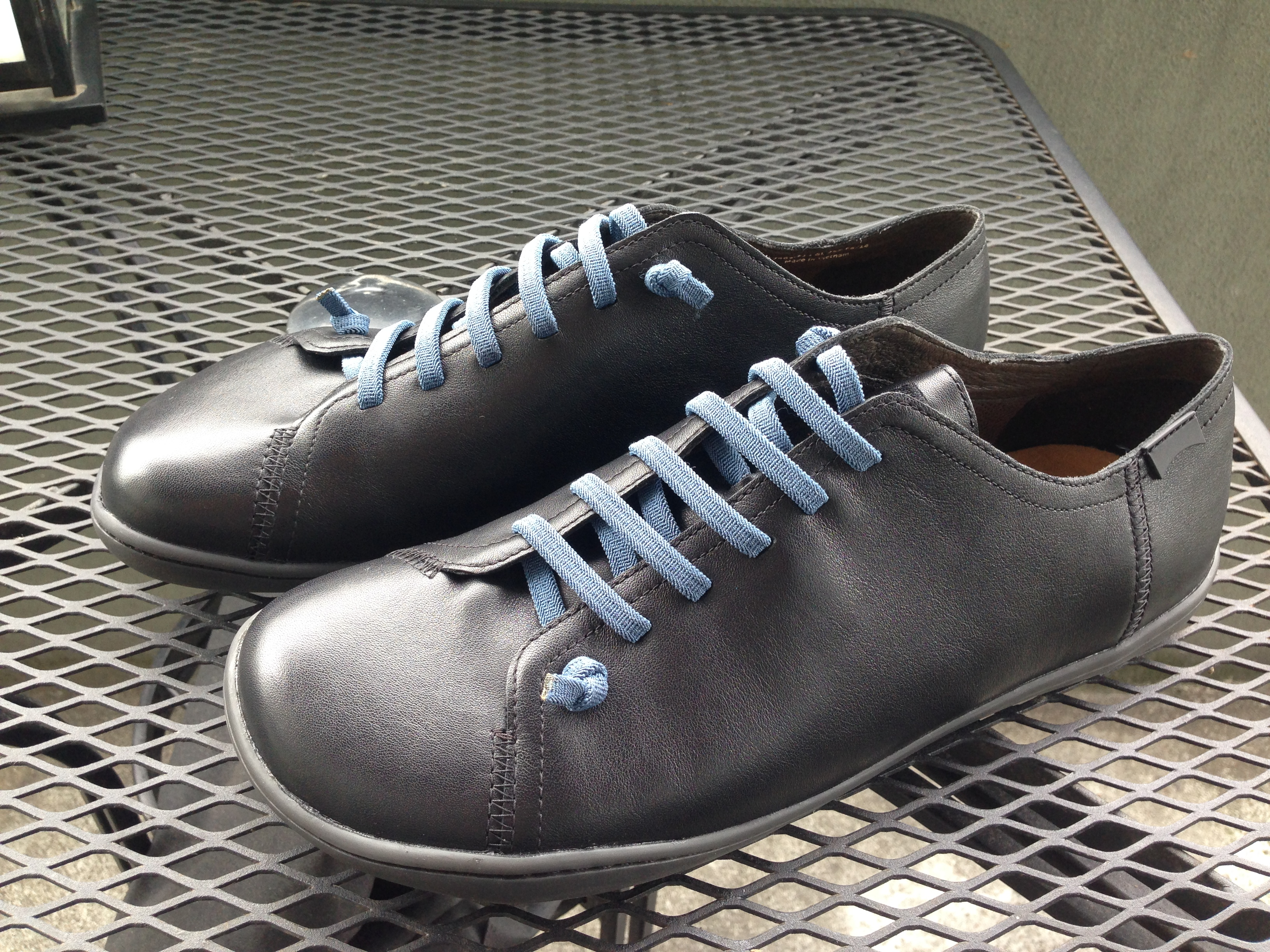 A new pair of Camper men's shoes.